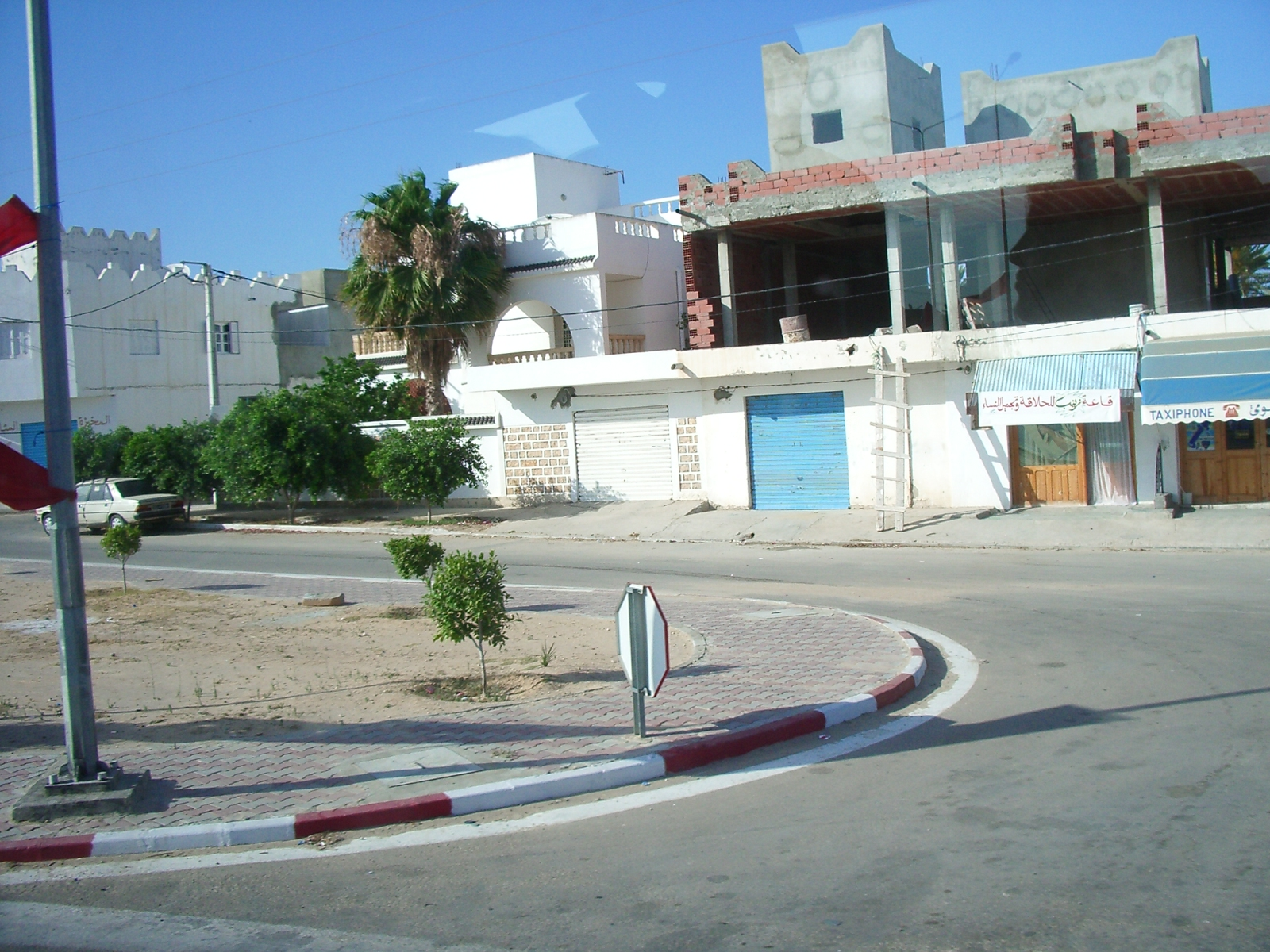 Mareth